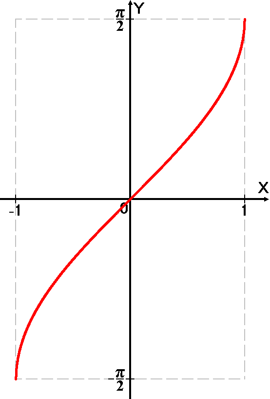 graph of arcsine function